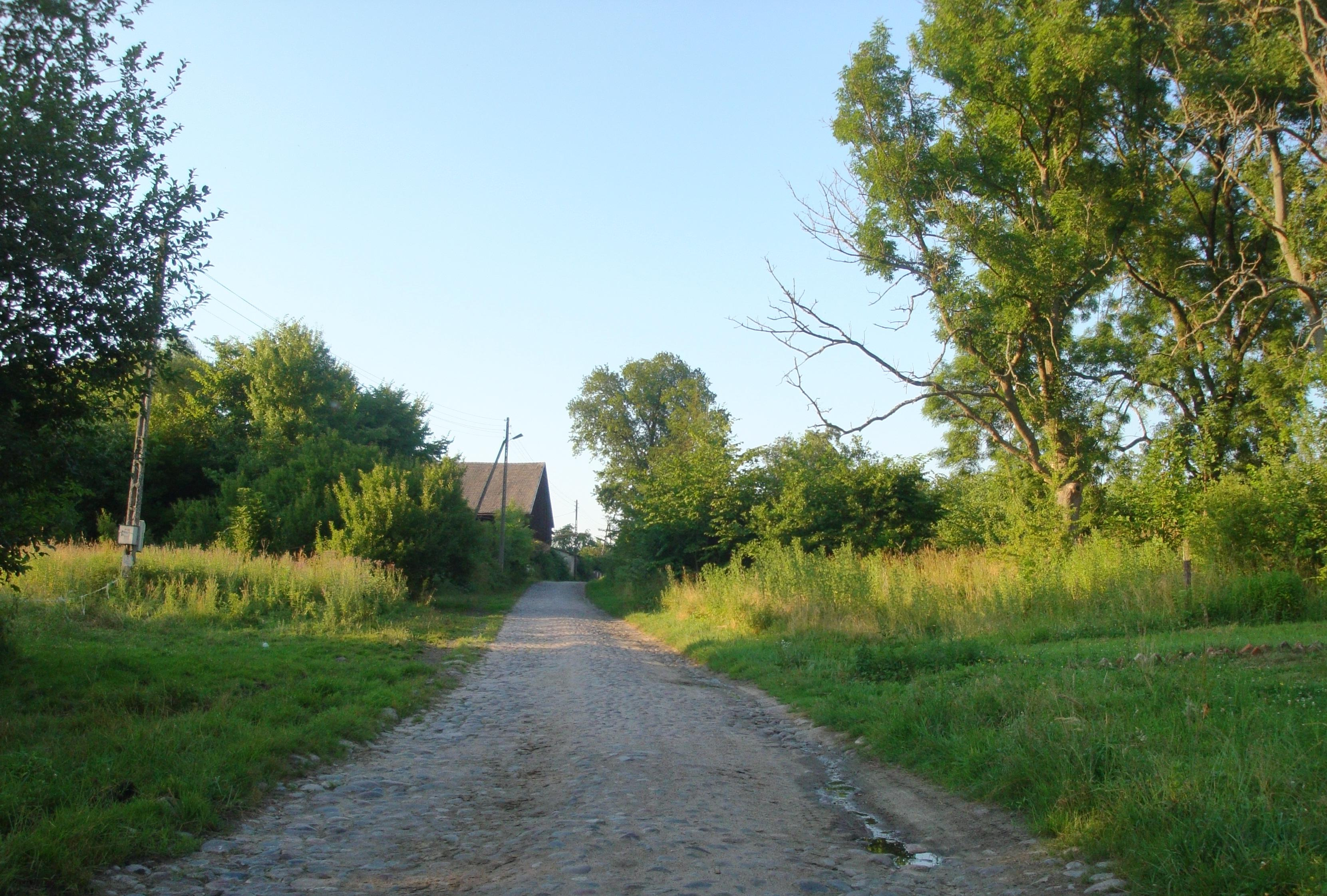 Równo-village in Pomeranian Voivodeship, Poland